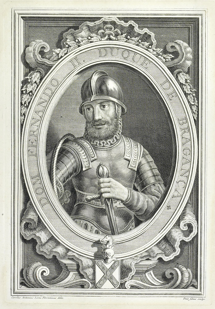 Ferdinand II, Duke of Braganza.